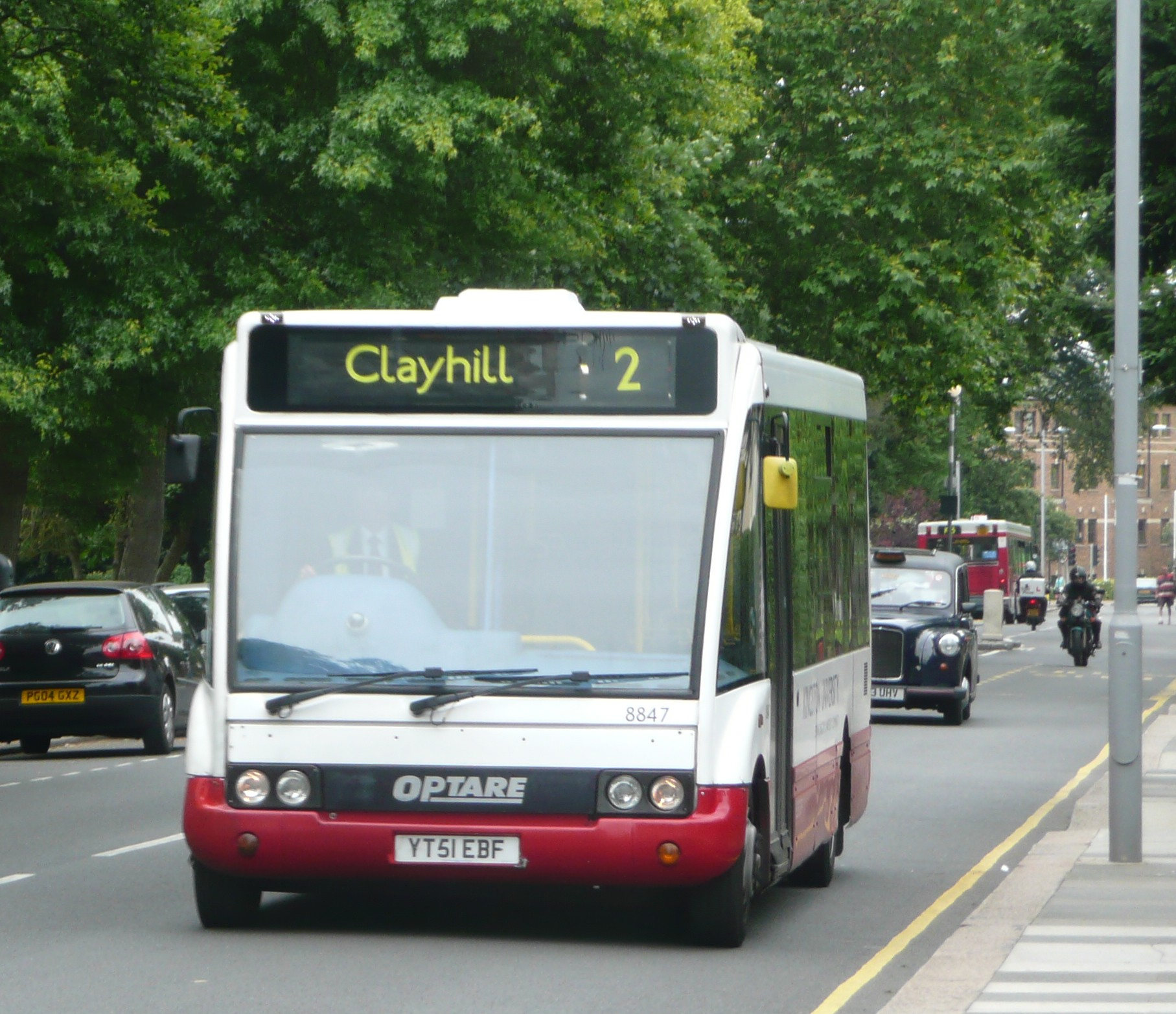 Travel London (West) bus 8847 (reg. YT51 EBF), a 2002 Optare Solo M850 midibus, in Claremont Road, Surbiton, on Kingston University route KU2. The Kingston University routes have an official prefix of "KU", though in practice the buses just carried the number. The Kingston University routes are now run by Tellings-Golden Miller, who do display the KU prefix on their LED displays.